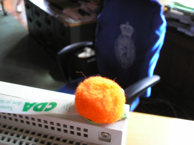 A Wuppie on the computer of one or other CDA member of the Dutch parliament, taken on an open day SGP.